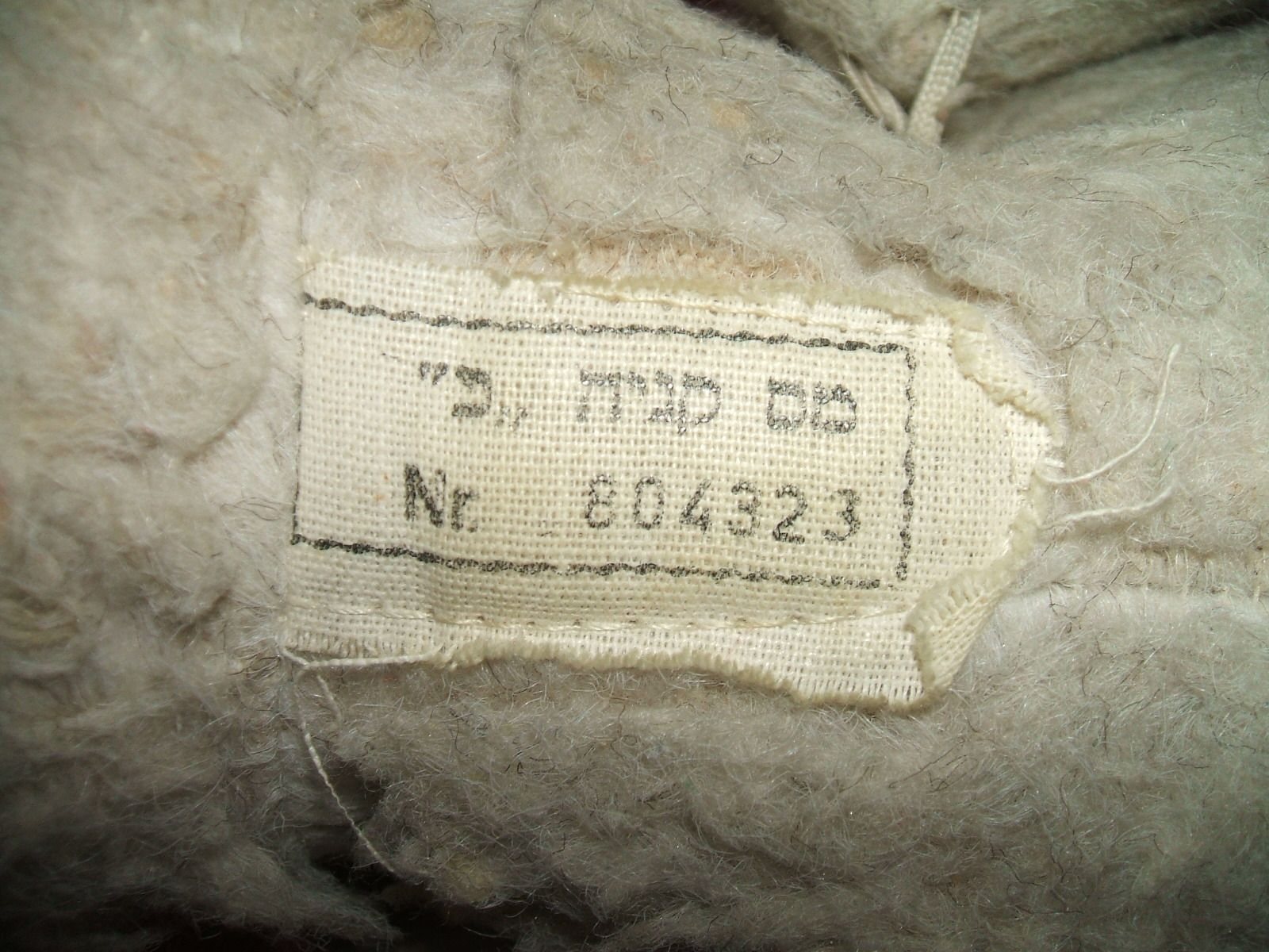 "Sales Tax" ticket on the back of a Teddy bear purchased in Israel during the 1960's